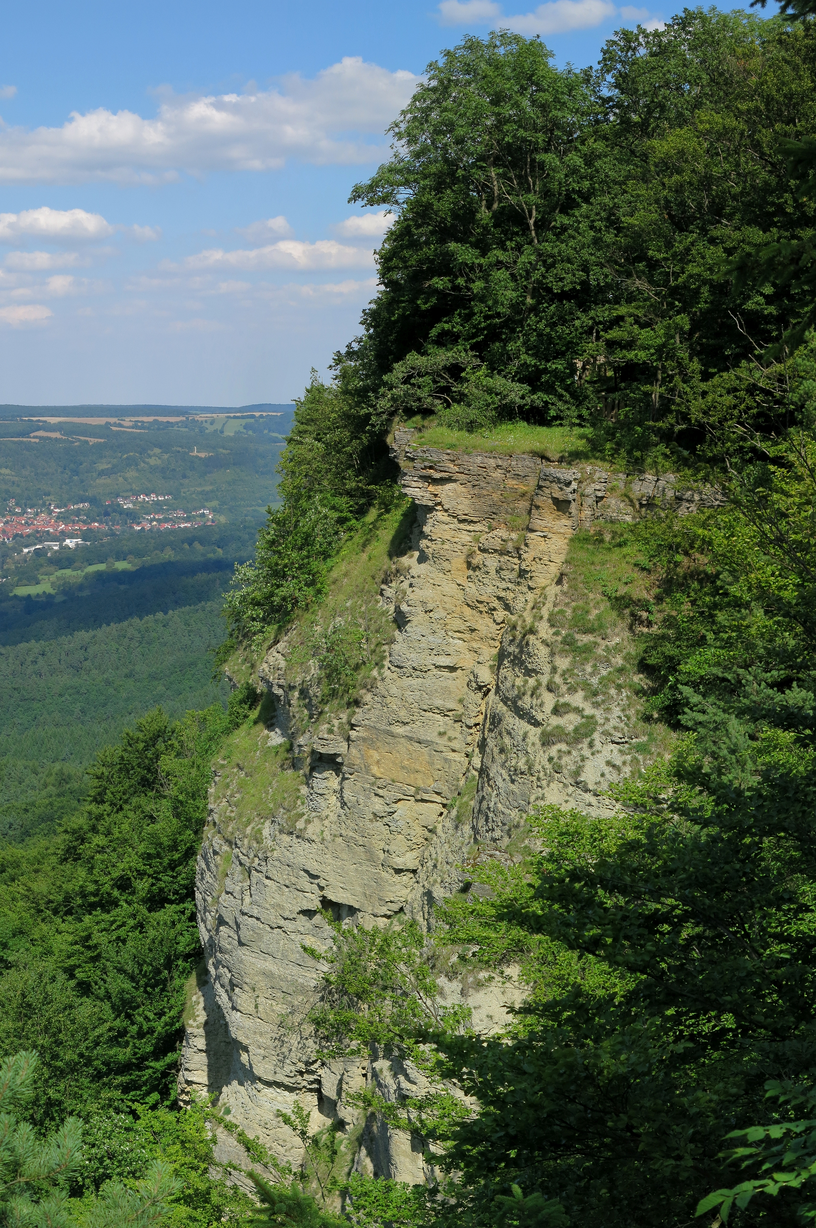 Rockface near the summit of the Heldrastein near Heldra, seen from west.